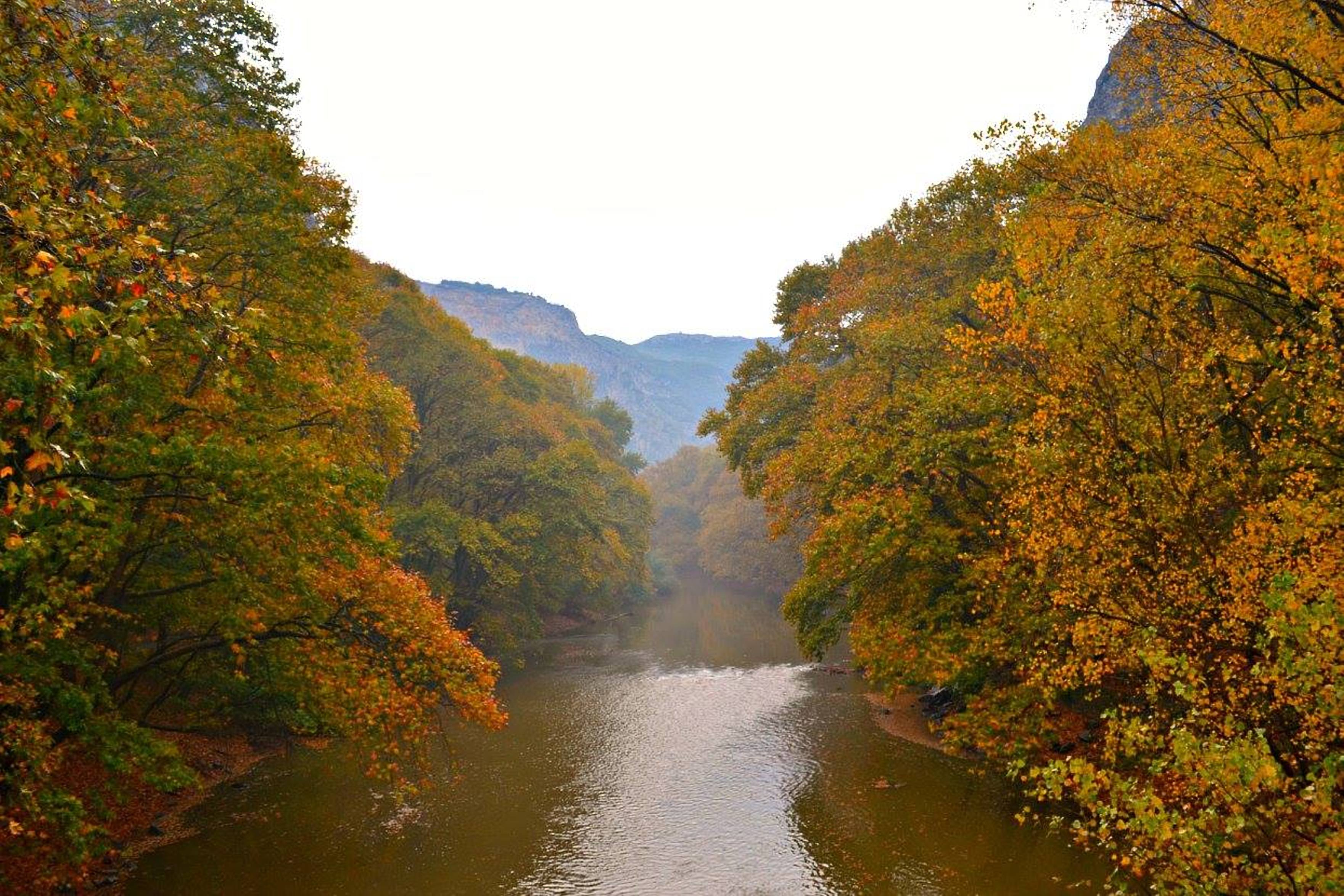 Pinios river riparian forest with plane tree (Platanus orientalis) This is a photography of Natura 2000 protected area with ID GR1420005